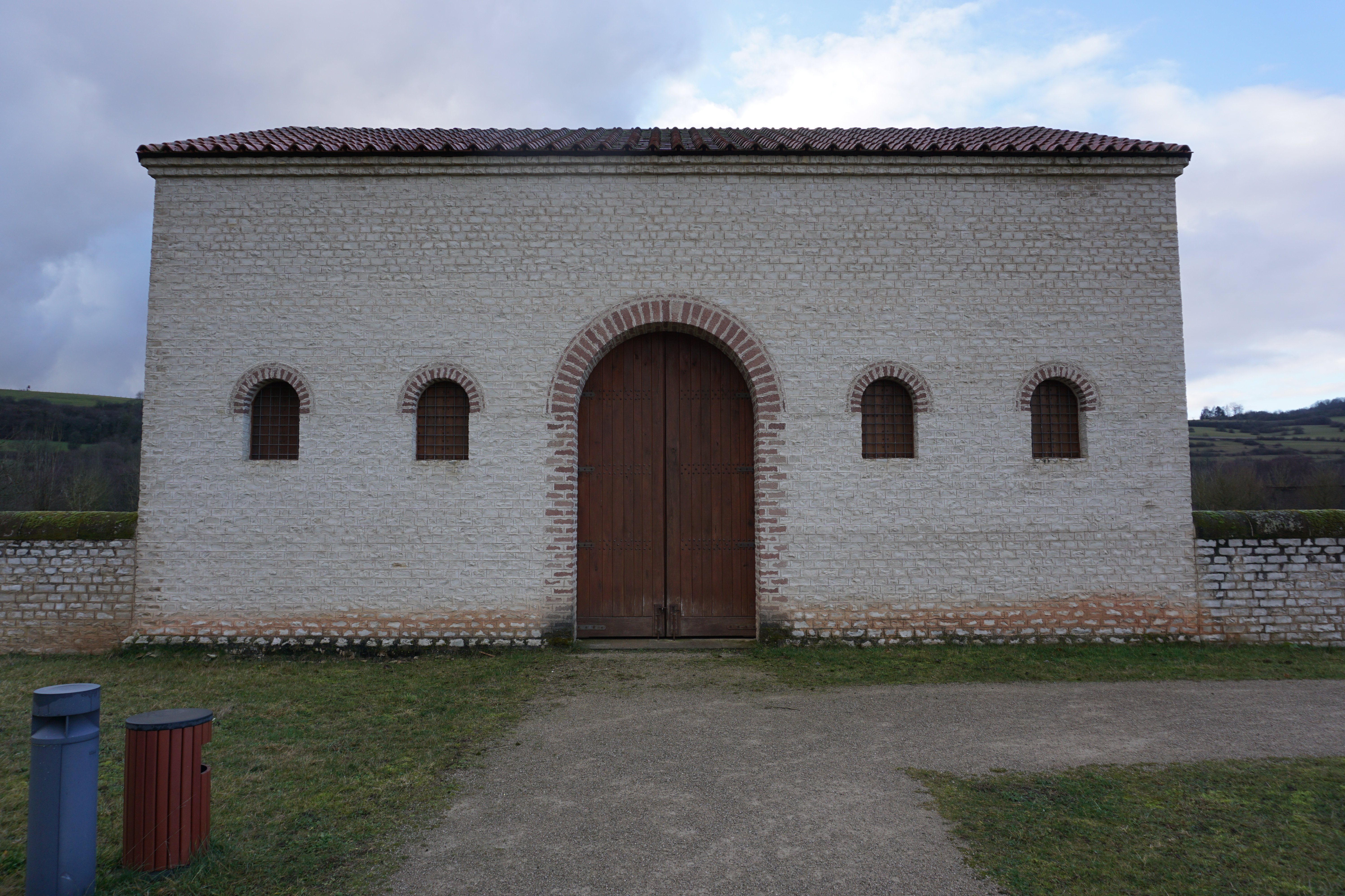 Reconstructed outbuilding 1 of the Roman villa of Reinheim.